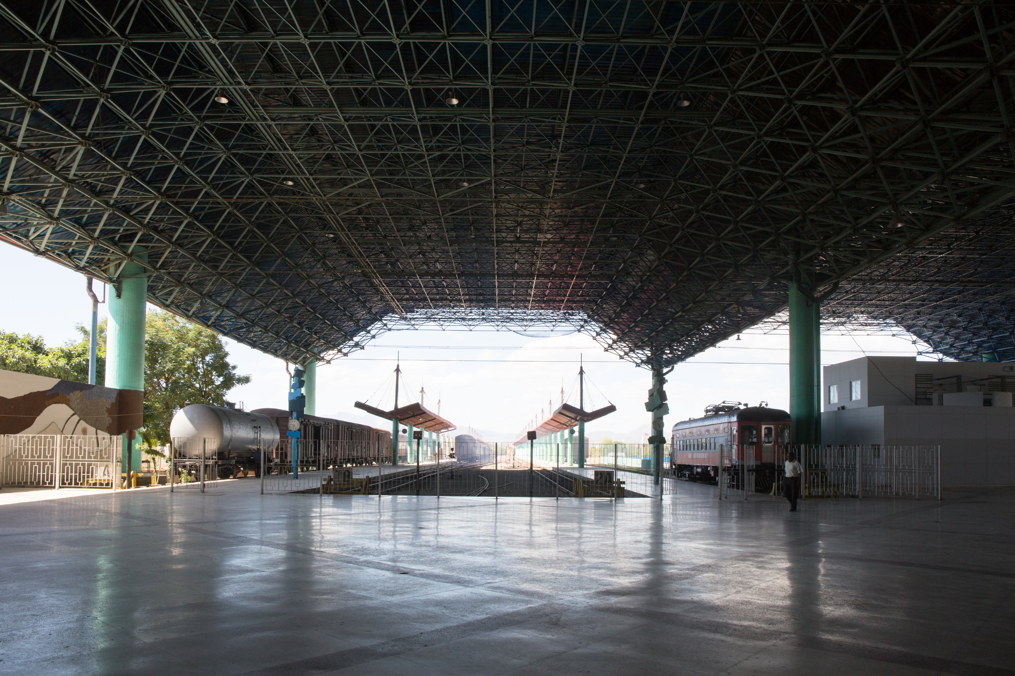 Main train station of Santiago de Cuba, also Viazul bus terminal